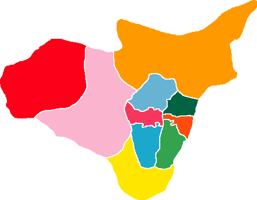 Subdivision of Taiyuan